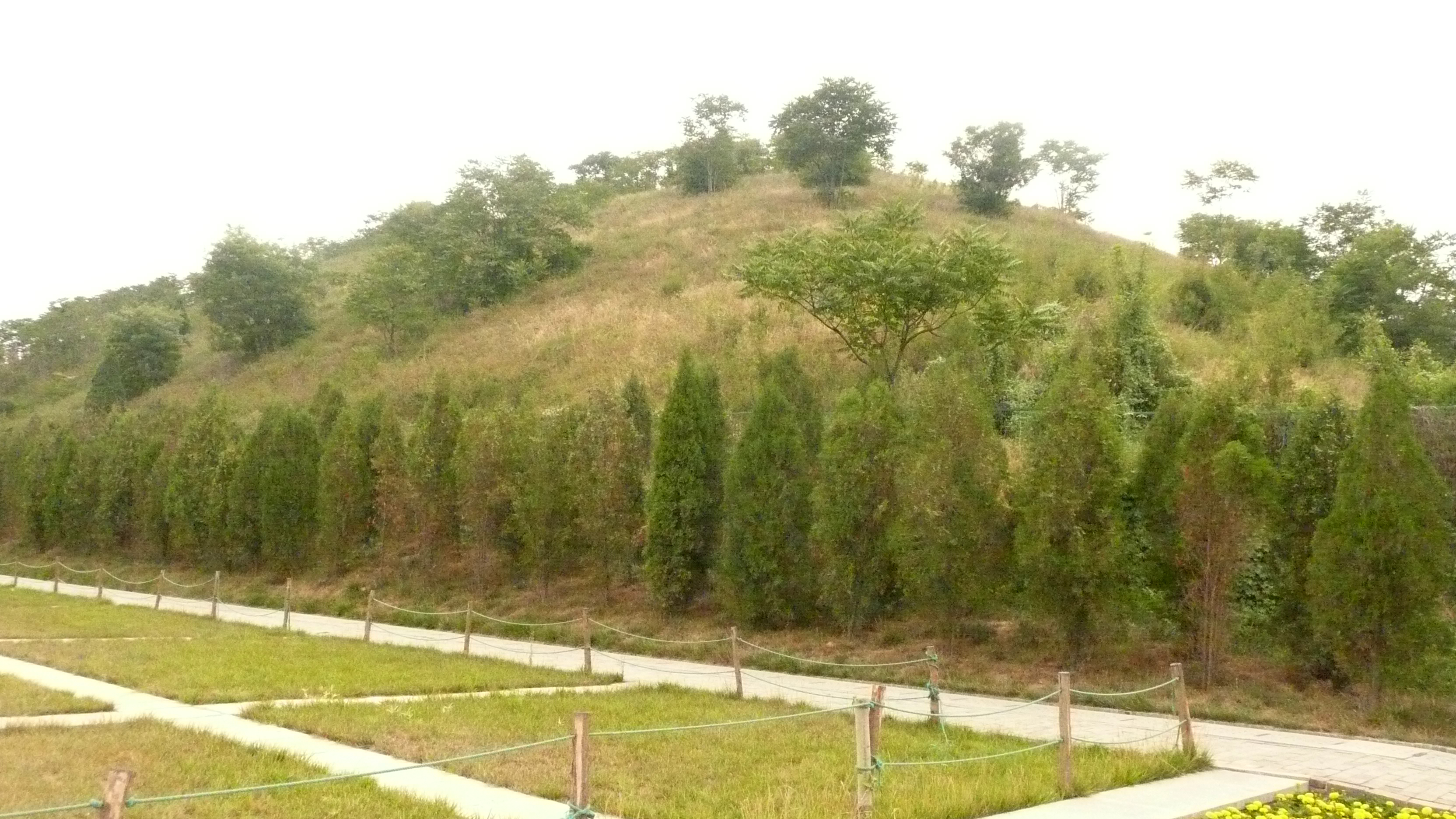 Mausoleum of Han Yang Ling near Xian